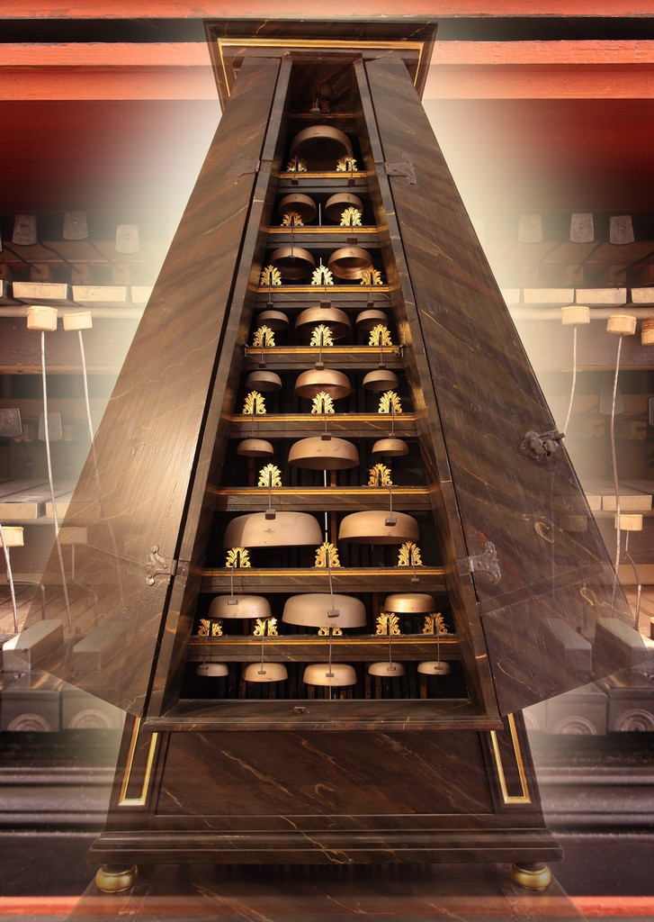 Ziec - Chimes (Glokenklavir) in the Church of St. Anne